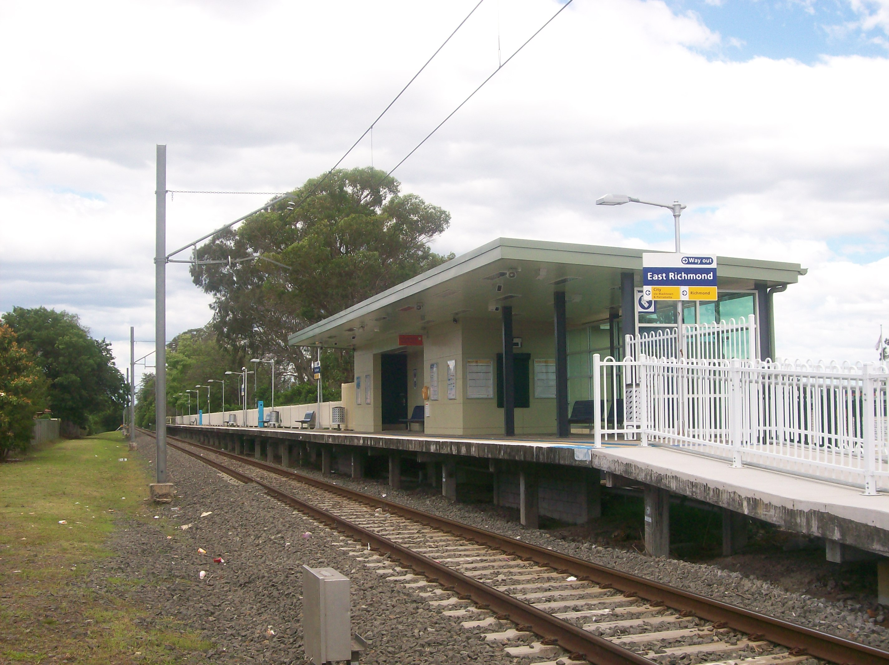 East Richmond railway station